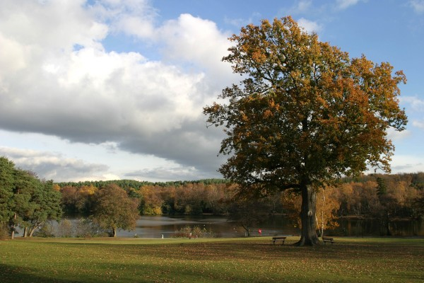 Tilgate lake,Tilgate park,Crawley. Photo taken facing roughly south east showing what used to be called(maybe it still is?)Campbells lake after the former world water speed record holder Sir Donald Campbell,who used to keep his boat here.